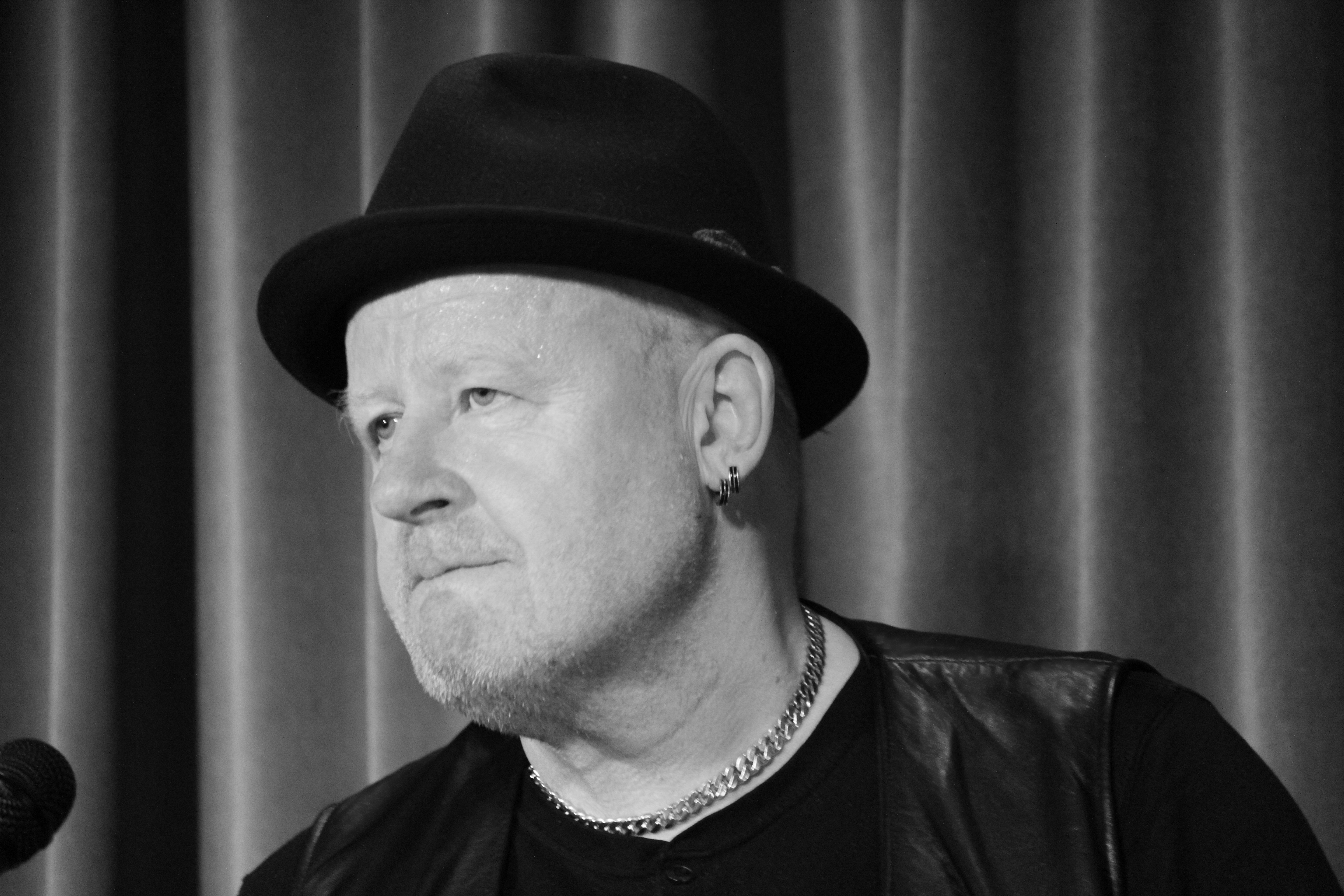 Gast Waltzing during a concert with his band Largo in Jazz Station, Saint-Josse Ten Noode.